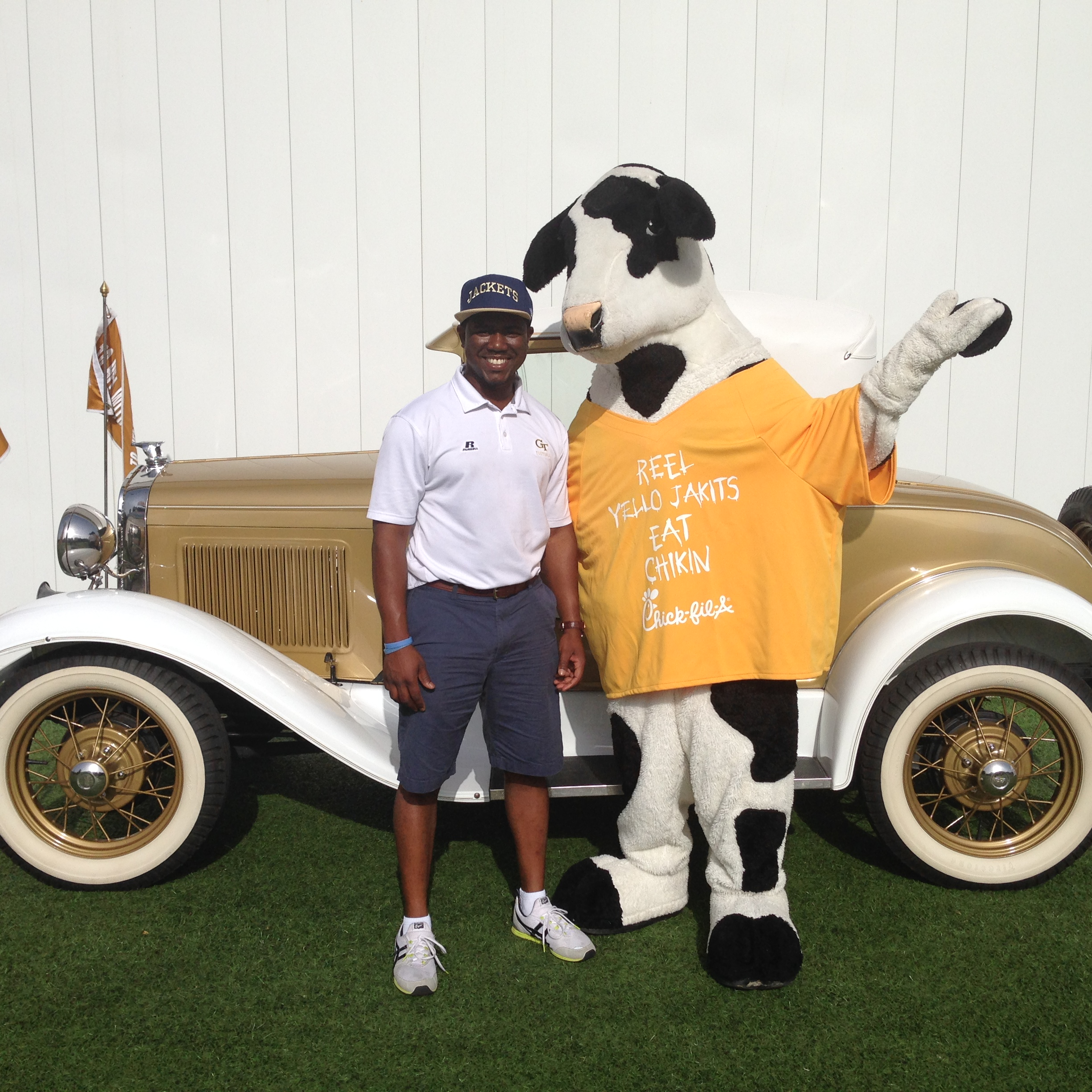 Georgia Tech camp in partnership with CFA Foundation and FCA